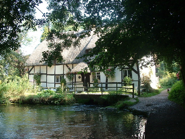 The Fulling Mill, New Alresford. Thirteenth century mill built for the fulling of cloth